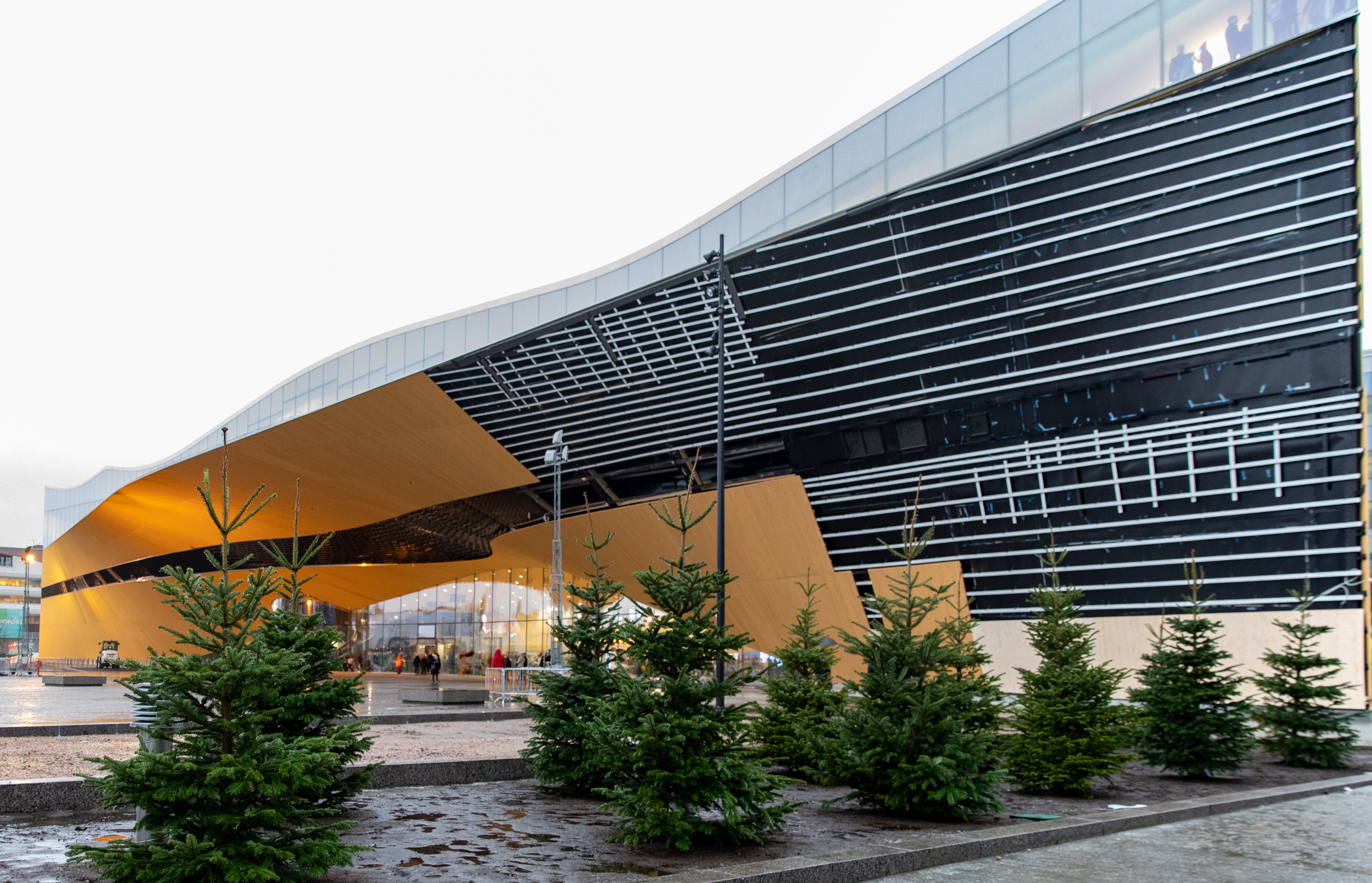 Central Library Oodi, Helsinki, Finland